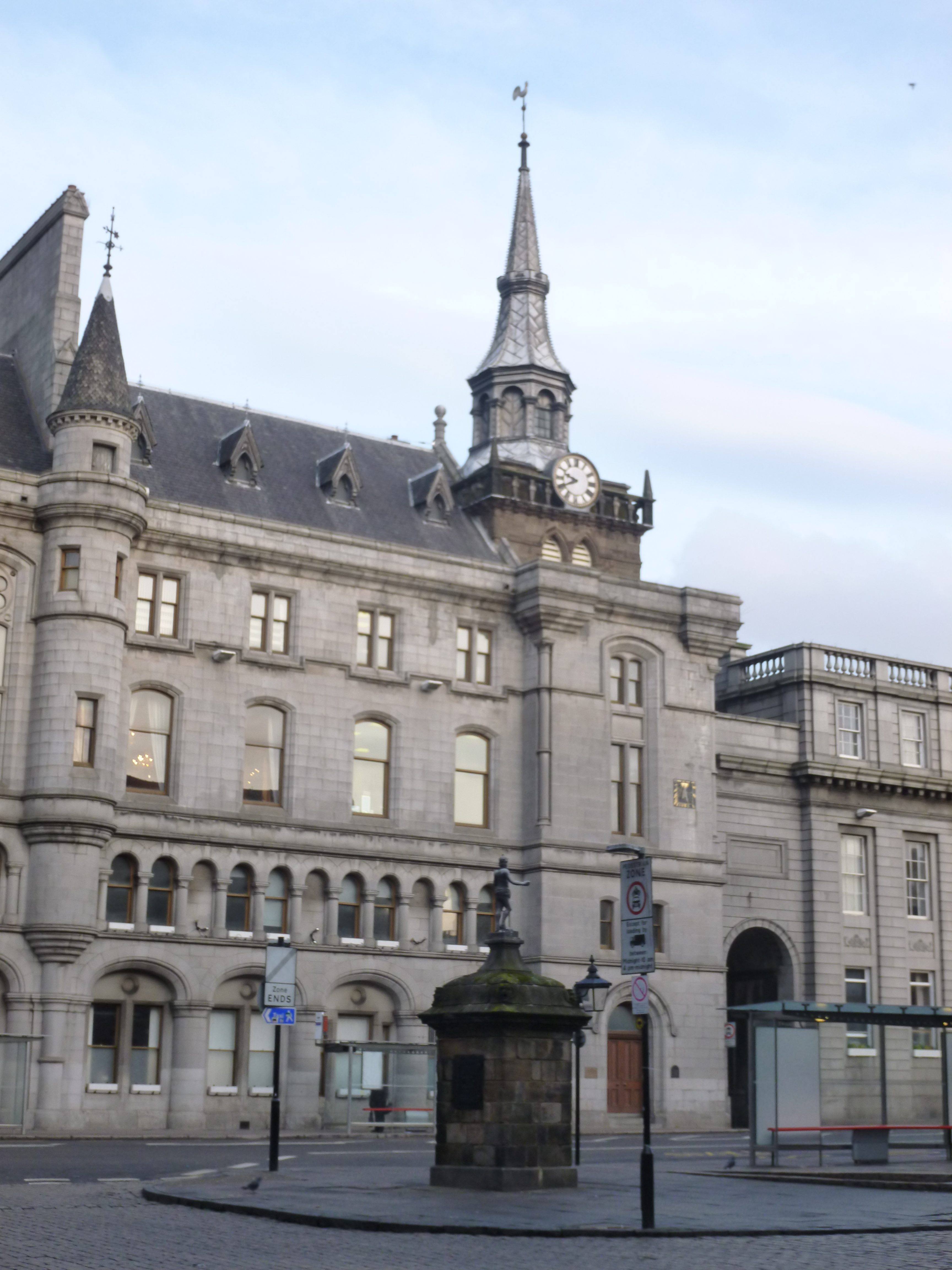 The Tolbooth Museum, a 17th Century Jail